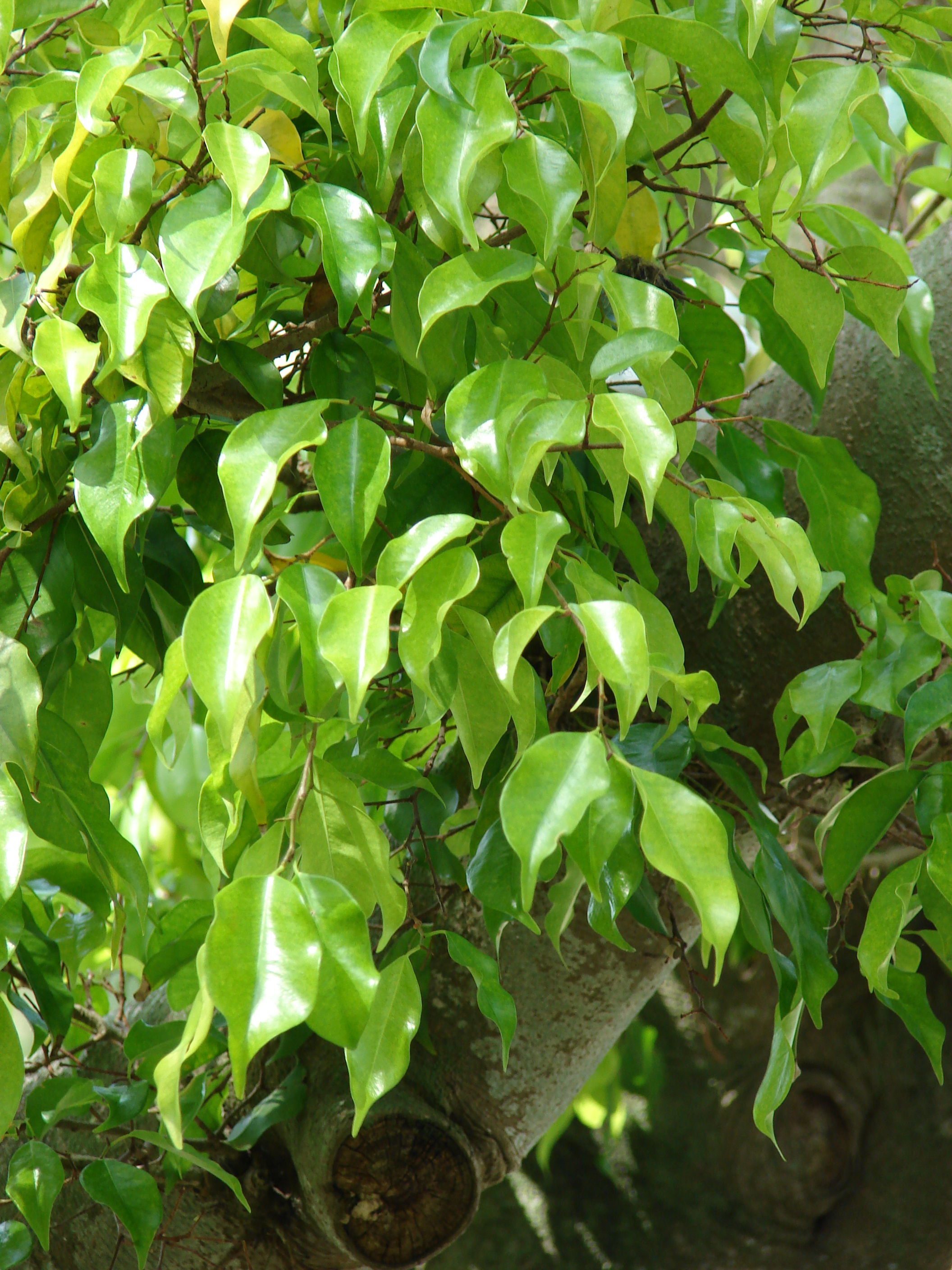 Ficus benjamina (leaves). Location: Midway Atoll, 4208 Commodore Ave Sand Island